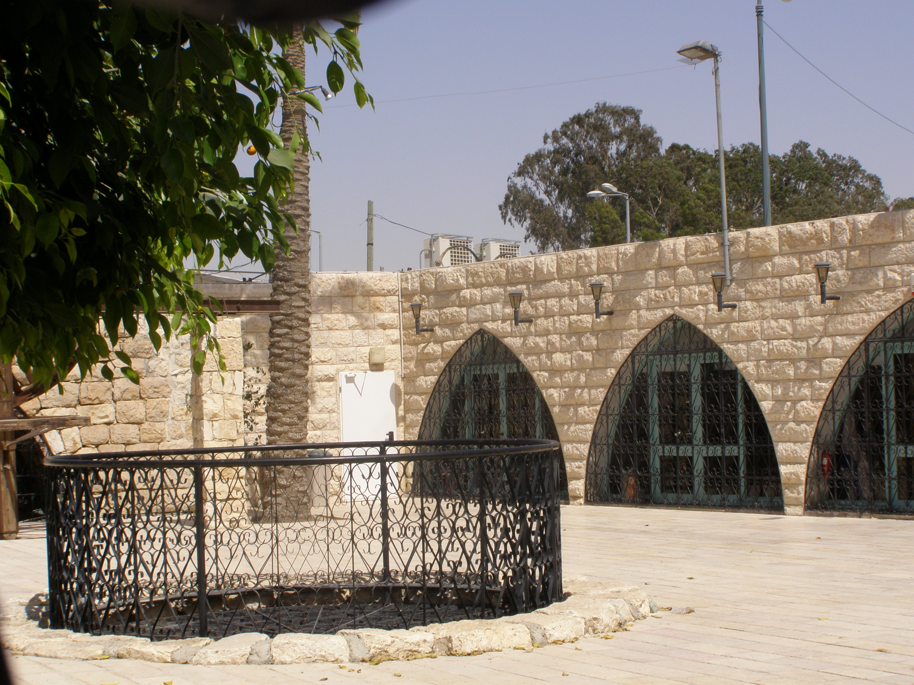 Beersheba, Old City, Be'er Avraham